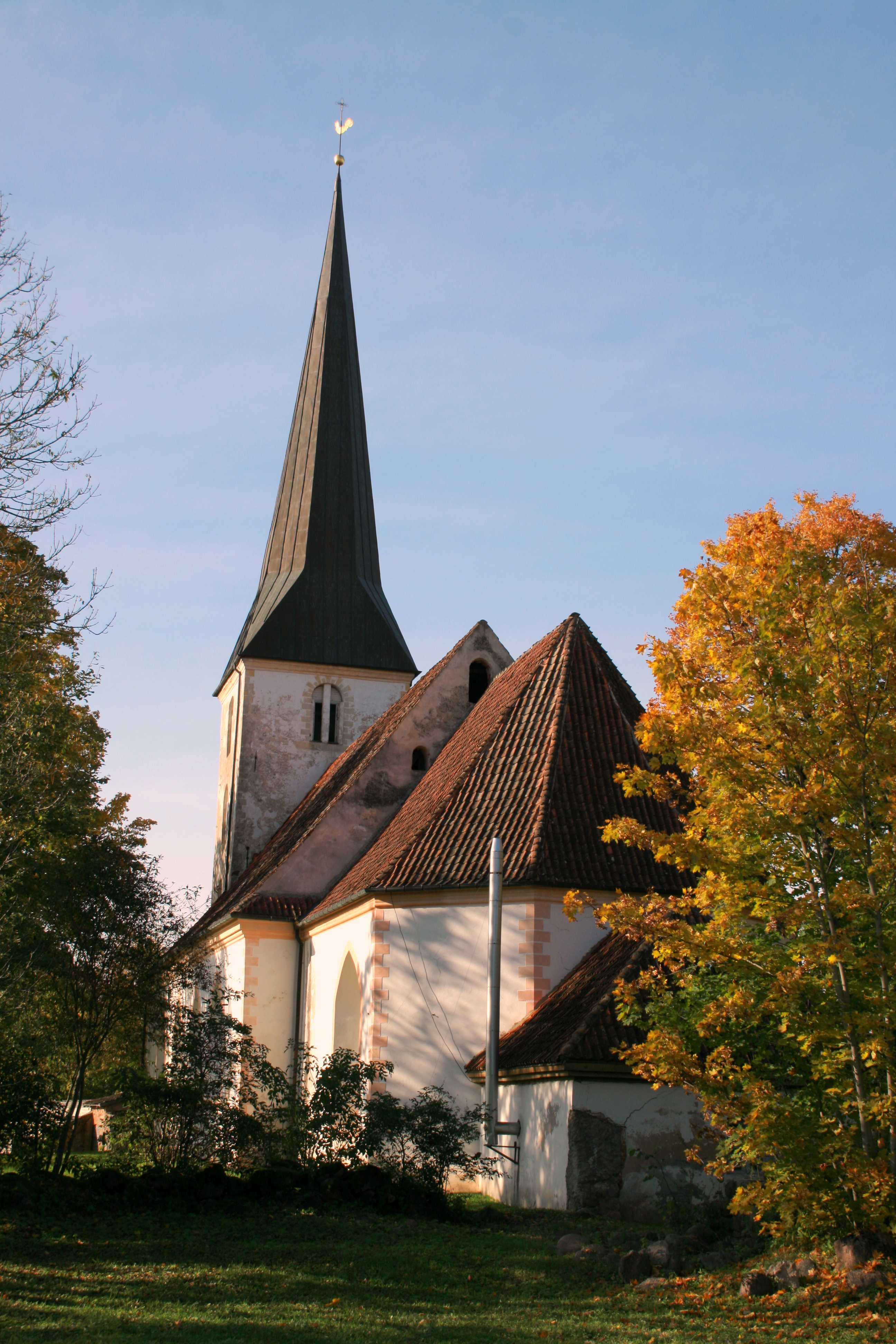 Jaunpils Evangelical Lutheran ChurchLatviešu: Jaunpils evaņģēliski luteriskā baznīca